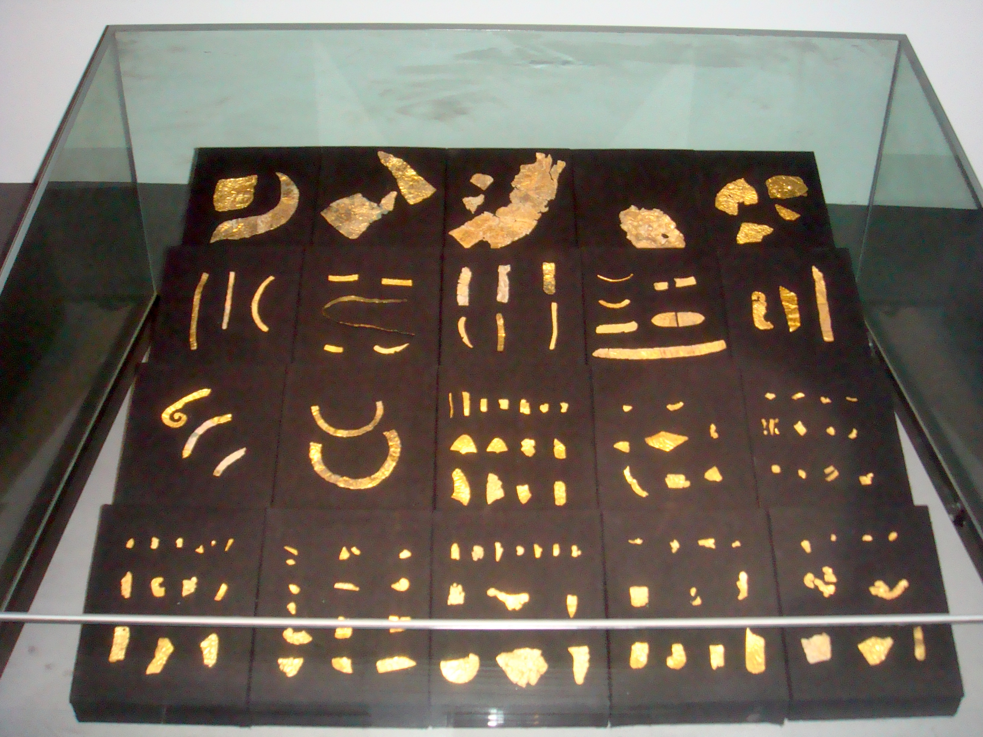 Golden Artifacts in Jinsha Site Museum, Chengdu City, Sichuan Province